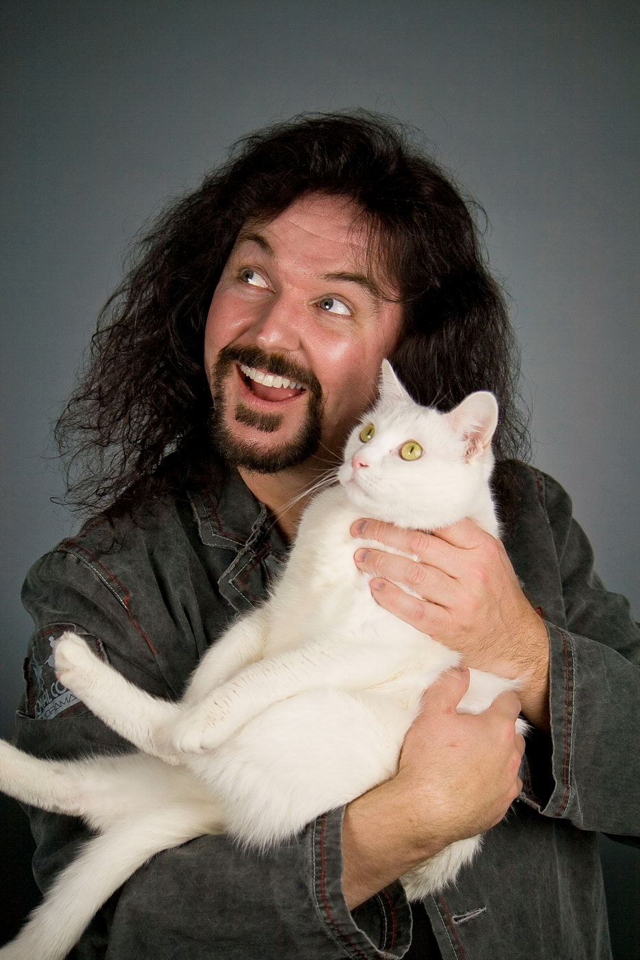 Personality and voice actor Wally Wingert with his cat Spooky. Photography by Scott Sebring.